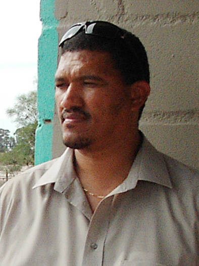 Minister of transport and public works for the Western Cape, South Africa, Marius Fransman.